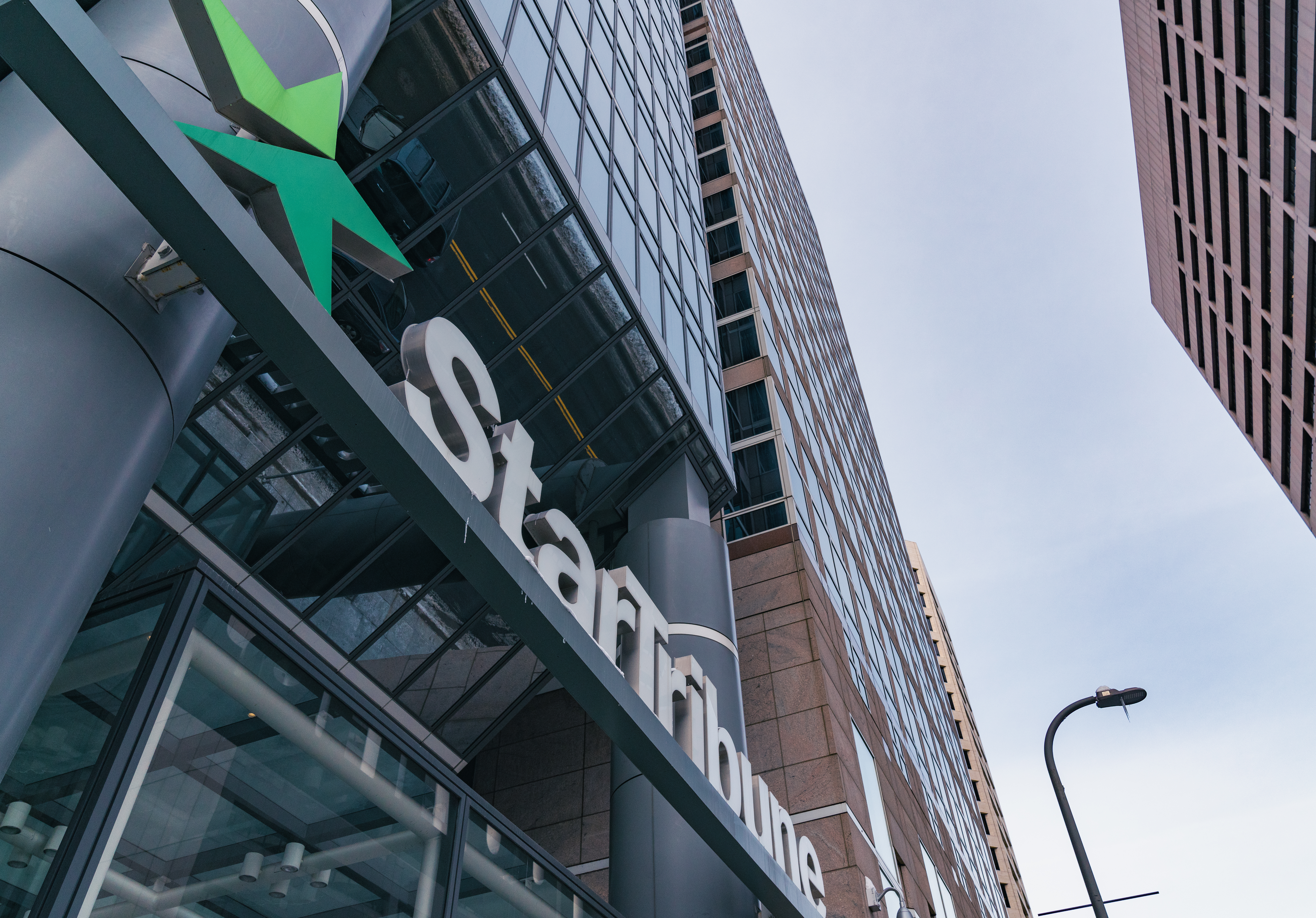 The Star Tribune Media Company newspaper headquarters at 650 3rd Avenue South in downtown Minneapolis, Minnesota.